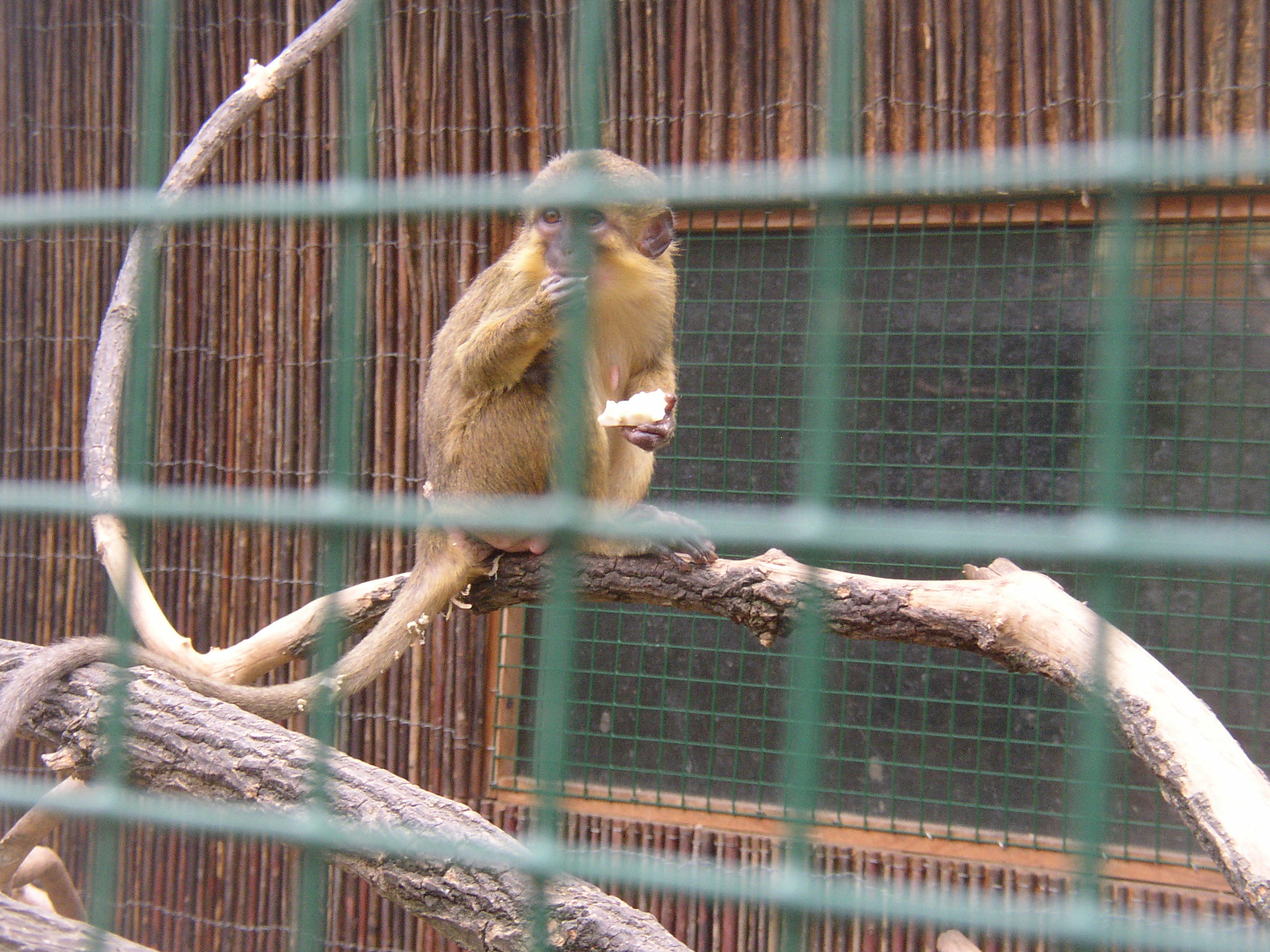 Gabon Talapoin (Northern Talapoin, Miopithecus ogouensis); Zoopark in Zájezd, Kladno District, Czech Republic.